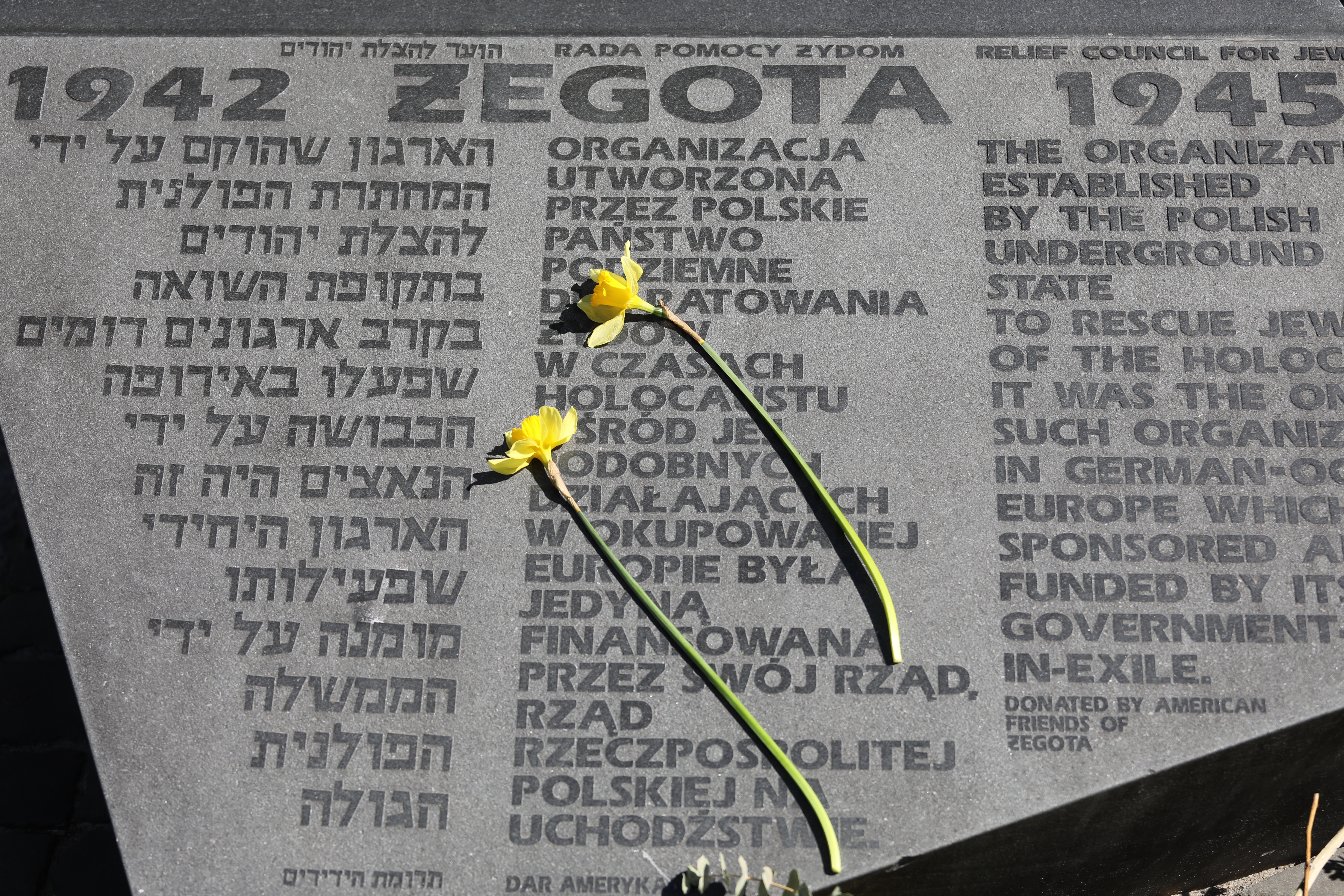 Zegota. Polish Council for Assistance to Jews at the Government Delegation of the Republic of Poland to Poland 1942-1945. During the Second World War in German-occupied Poland in 1939-1945. And the Holocaust by the Third German Reich. Celebrations of the 76th anniversary of the outbreak of the Warsaw Ghetto Uprising.